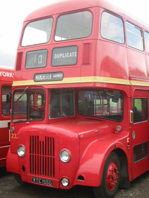 A former Lancashire United Transport Guy Arab V with Northern Counties bodywork, fleetnumber 232 (WTE 155D). Now preserved and seen here at the Trans Lancs Rally 2008.